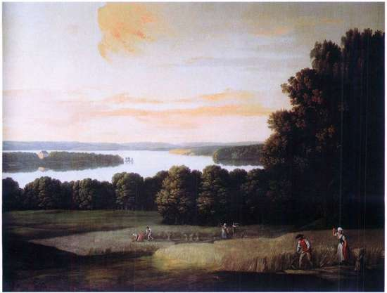 A harvest scene from the Dronninggård estate painted by Erik Pauelsen in Moltke's Mansion in Copenhagen, Denmark.